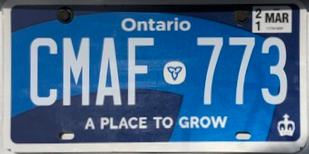 Ontario license plate 2020.